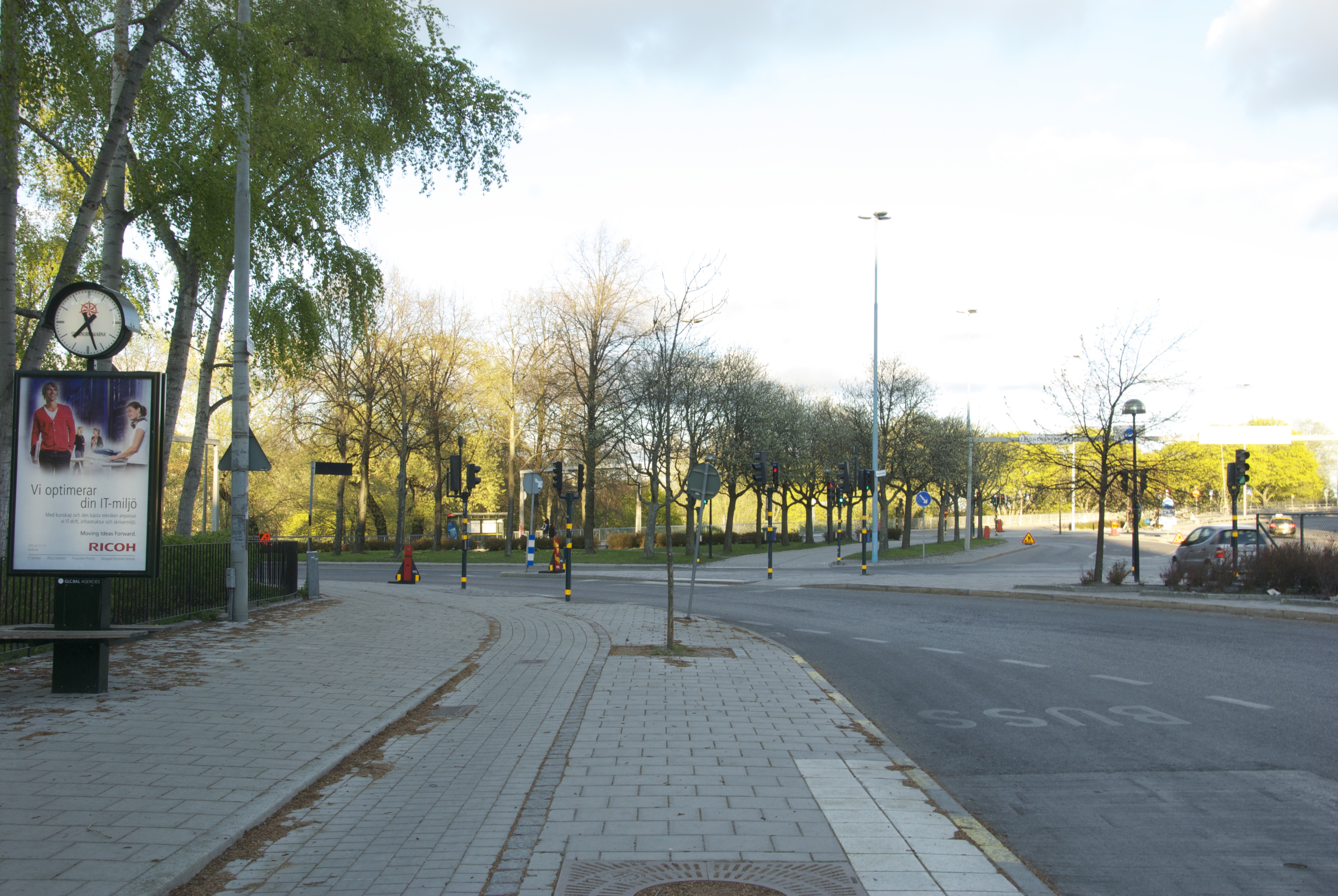 Västerbroplan, april 2011.